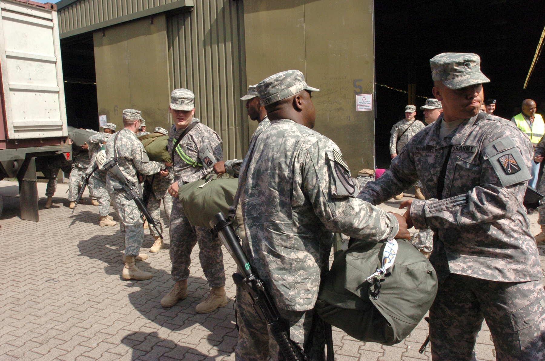 Soldiers from U.S. Army Europe's 16th Sustainment Brigade load duffle bags onto a trailer at the Deployment Processing Center at Rhine Ordnance Barracks in Kaiserslautern, Germany as the unit deployed to Iraq July 19.